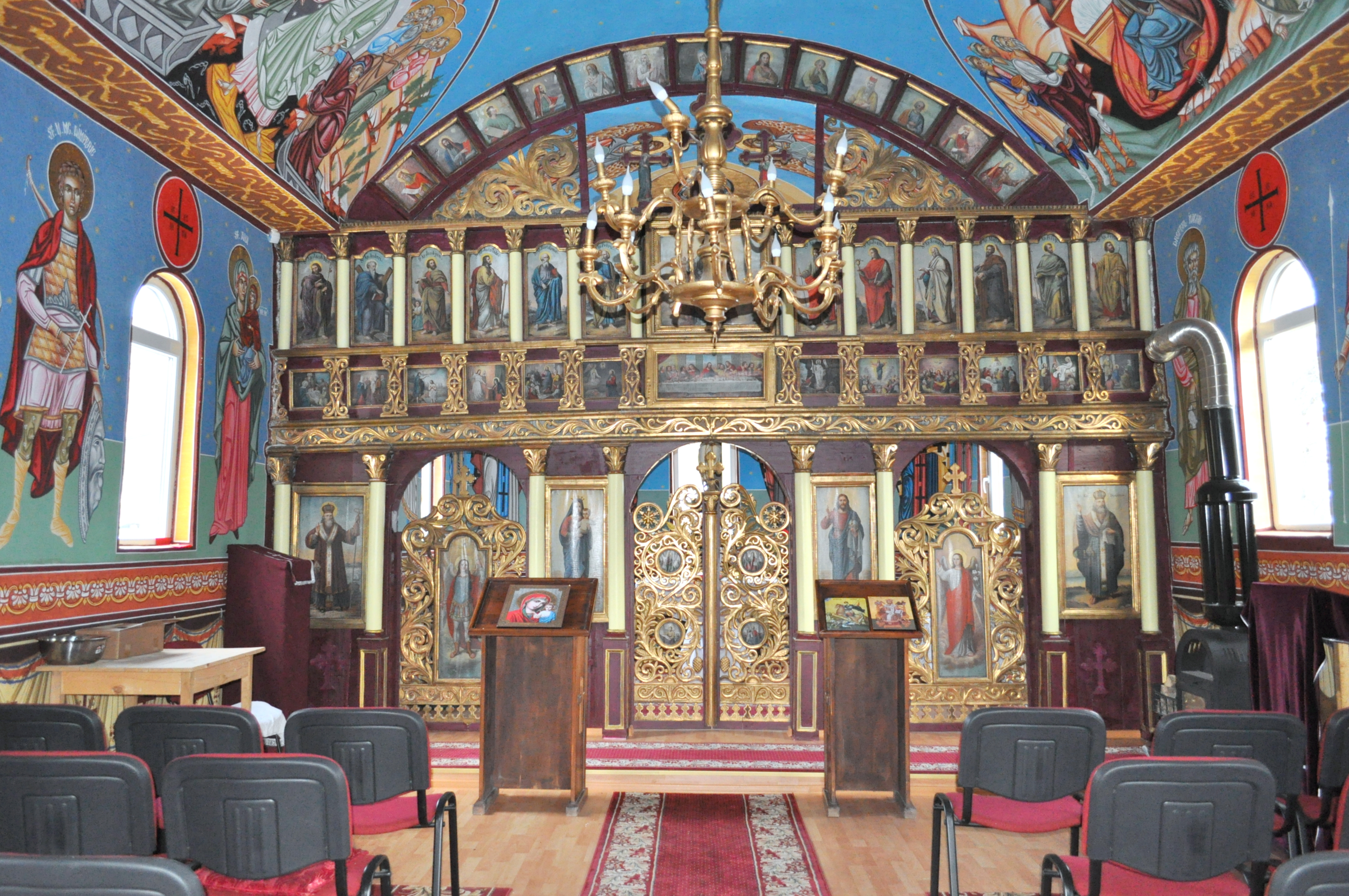 Wooden church in Nețeni, Bistrița-Năsăud county, Romania